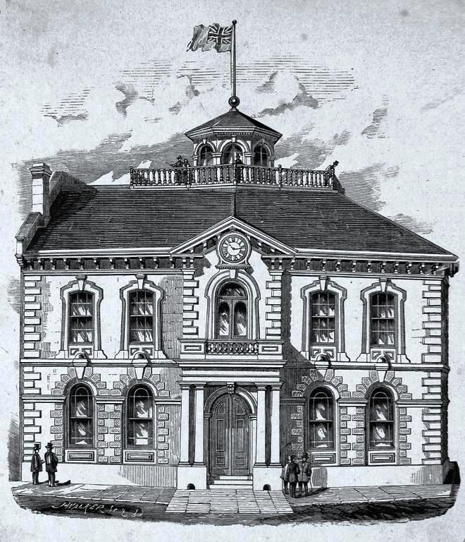 Office of H & A Allan, Montreal. 1863. Notman Records, McCord Museum, Montreal